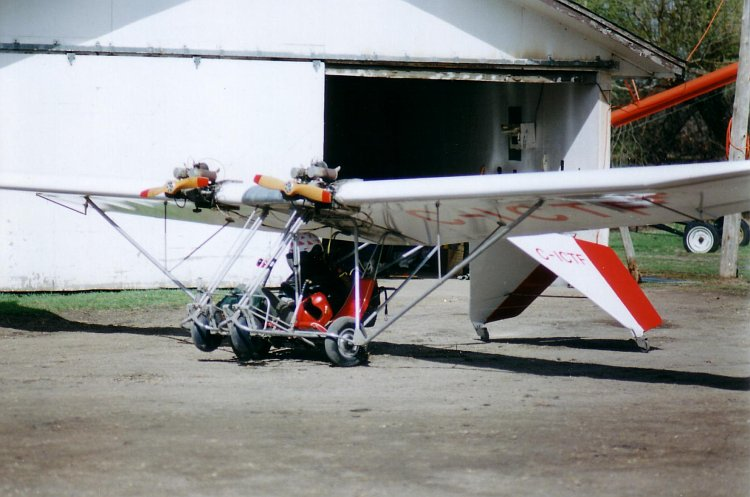 I took this photo of a Lazair II (C-ICTF)